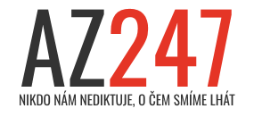 AZ247.cz website logo